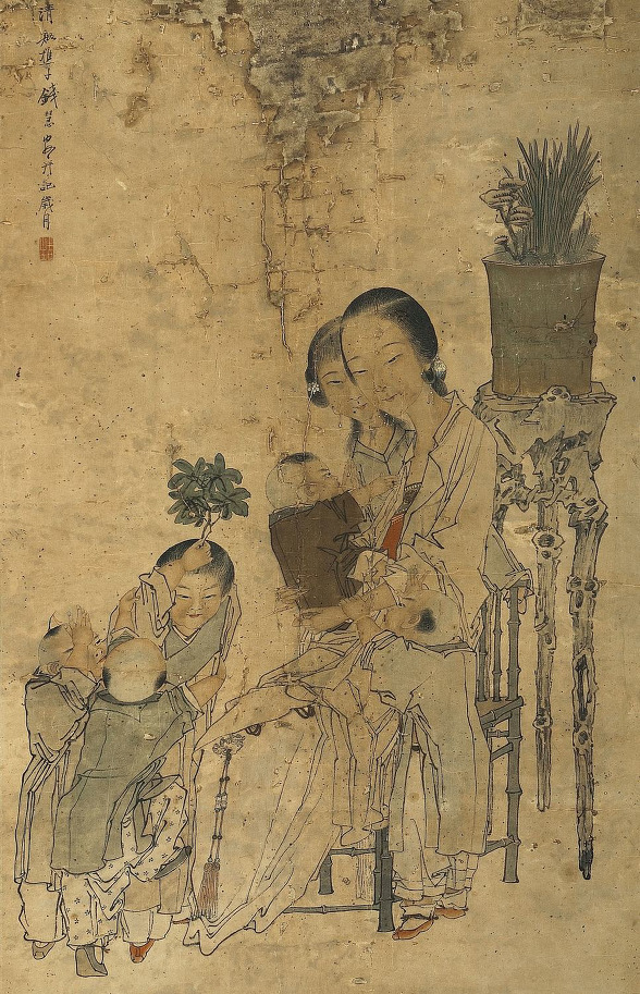 Five Sons, 79×49cm, painted by Qian Hui'an (1833-1911)